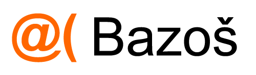 Bazos logo.